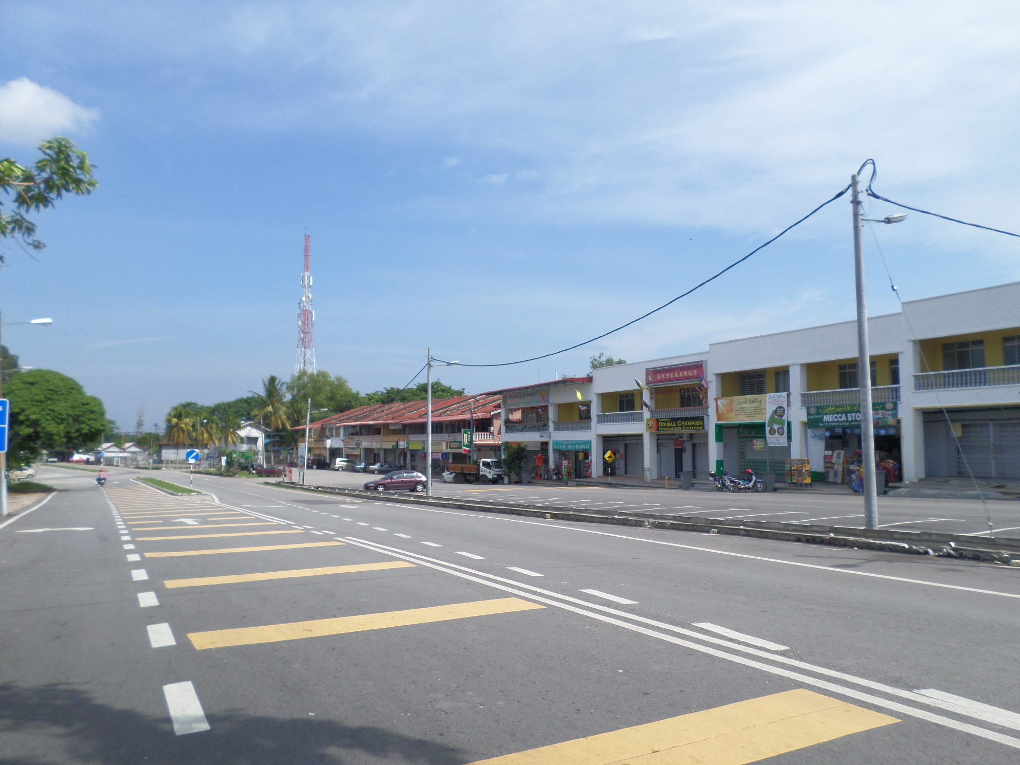 Linggi, Port Dickson, Negeri Sembilan, MalaysiaBahasa Melayu: Linggi, Port Dickson, Negeri Sembilan, Malaysia